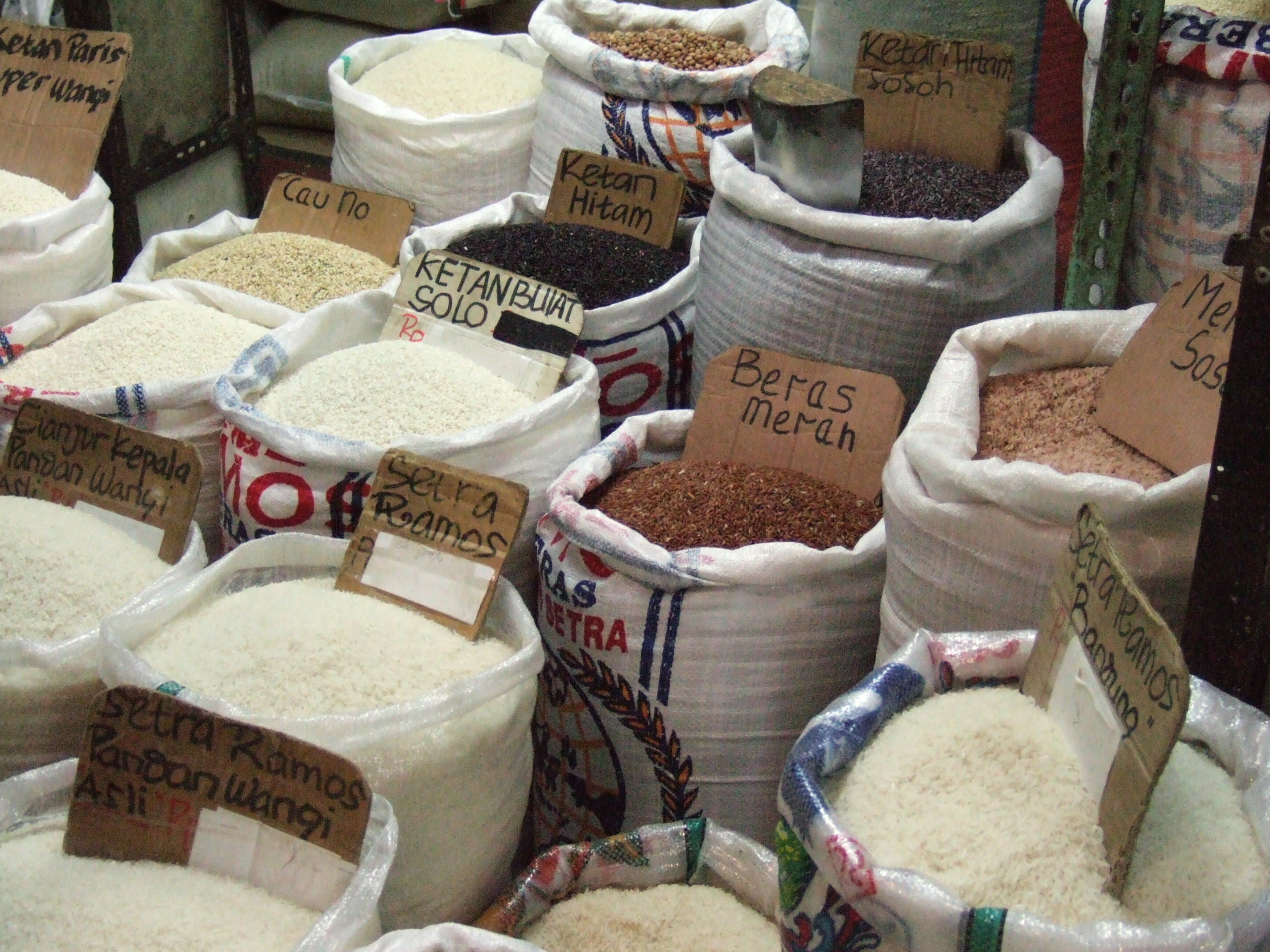 Variety of rice in a rice vendor, Pasar Mandiri Kelapa Gading, Jakarta, Indonesia